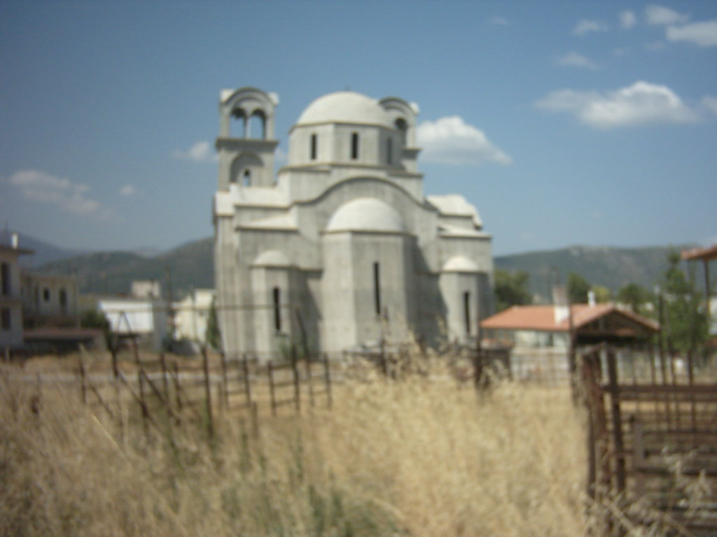 Taken from a street in Nemea Showing an abandoned project for a new church.